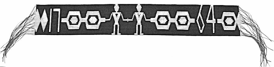 The Covenant Chain Wampum presented by Sir William Johnson at the conclusion of the Council of Niagara. This replica was commissioned by Nathan Tidridge and created by Ken Maracle of the Seneca Nation.